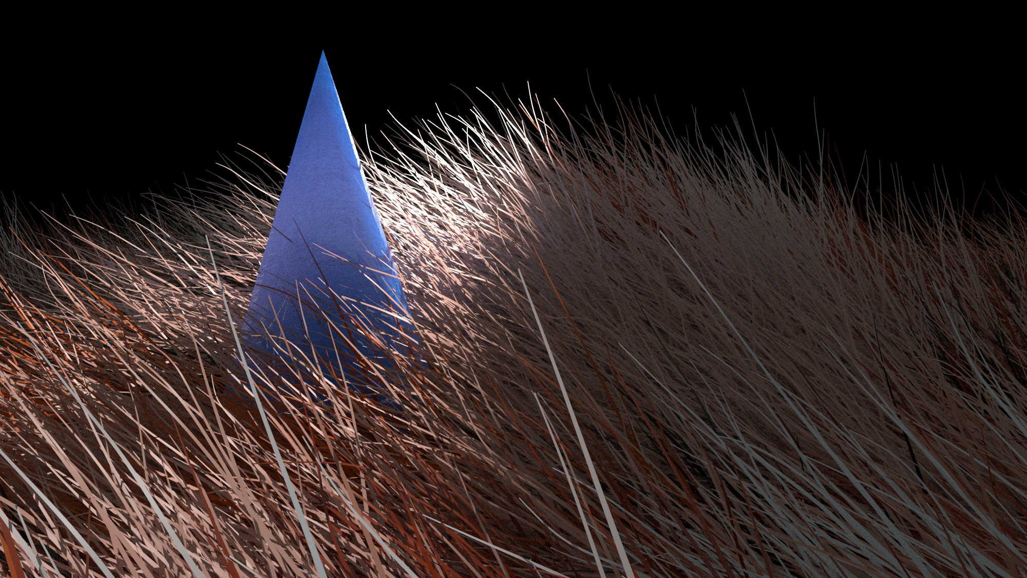 A 3D scene with artificial grass and a semi transparent, slightly reflective cone, rendered using Arnold by Solid Angle.